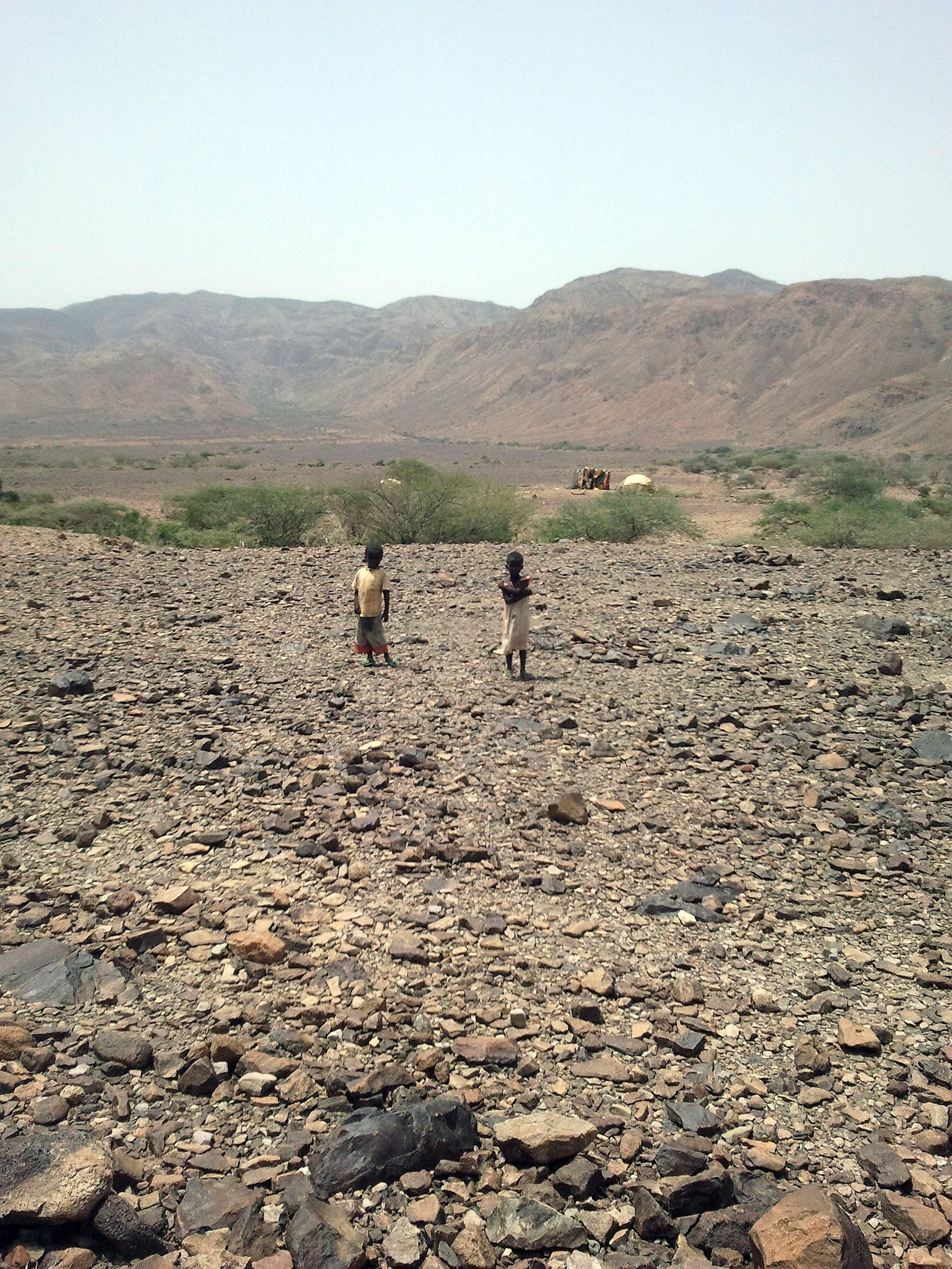 This is an image of Cultural Fashion or Adornment from Djibouti